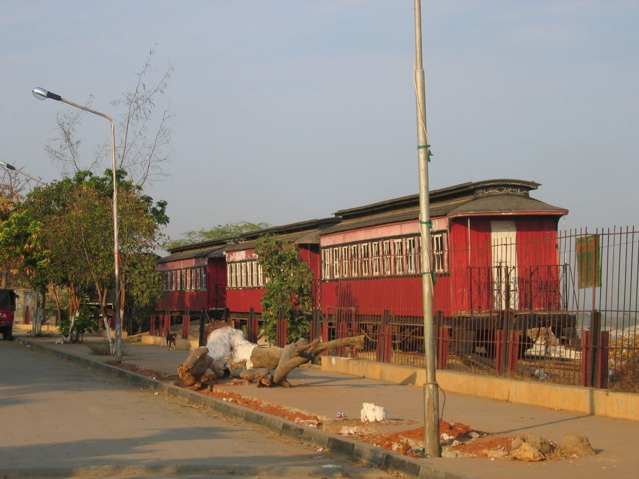 Historic train on Luanda railway line, Angola